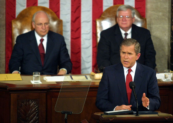 President George W. Bush speaks to a Joint Session of Congress Tuesday night February 27, 2001 at the Capitol. WHITE HOUSE PHOTO BY PAUL MORSE